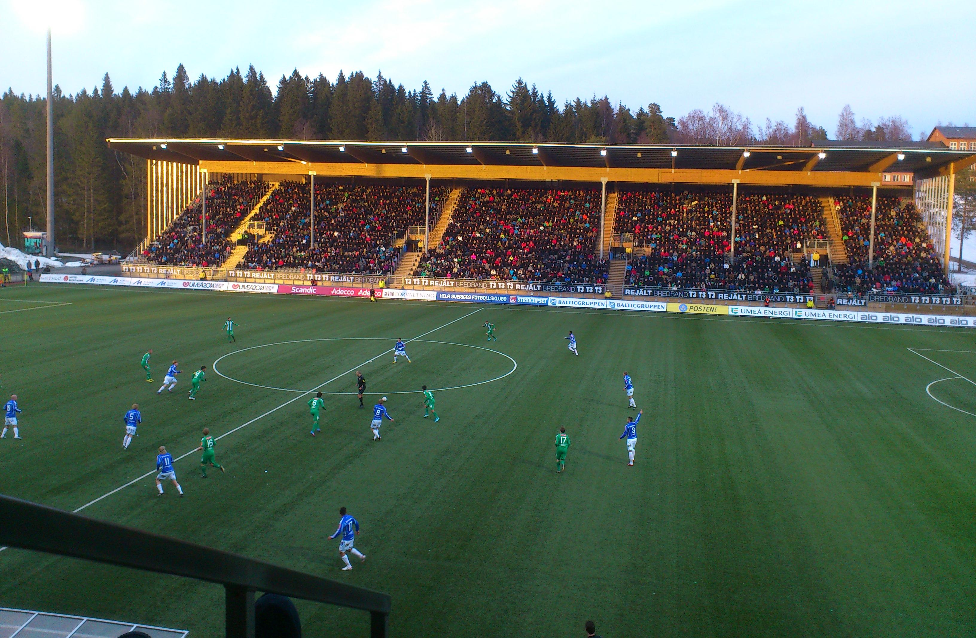 Superettan game between Umeå FC-Hammarby IF (1-2) at T3 Arena in Umeå, Sweden